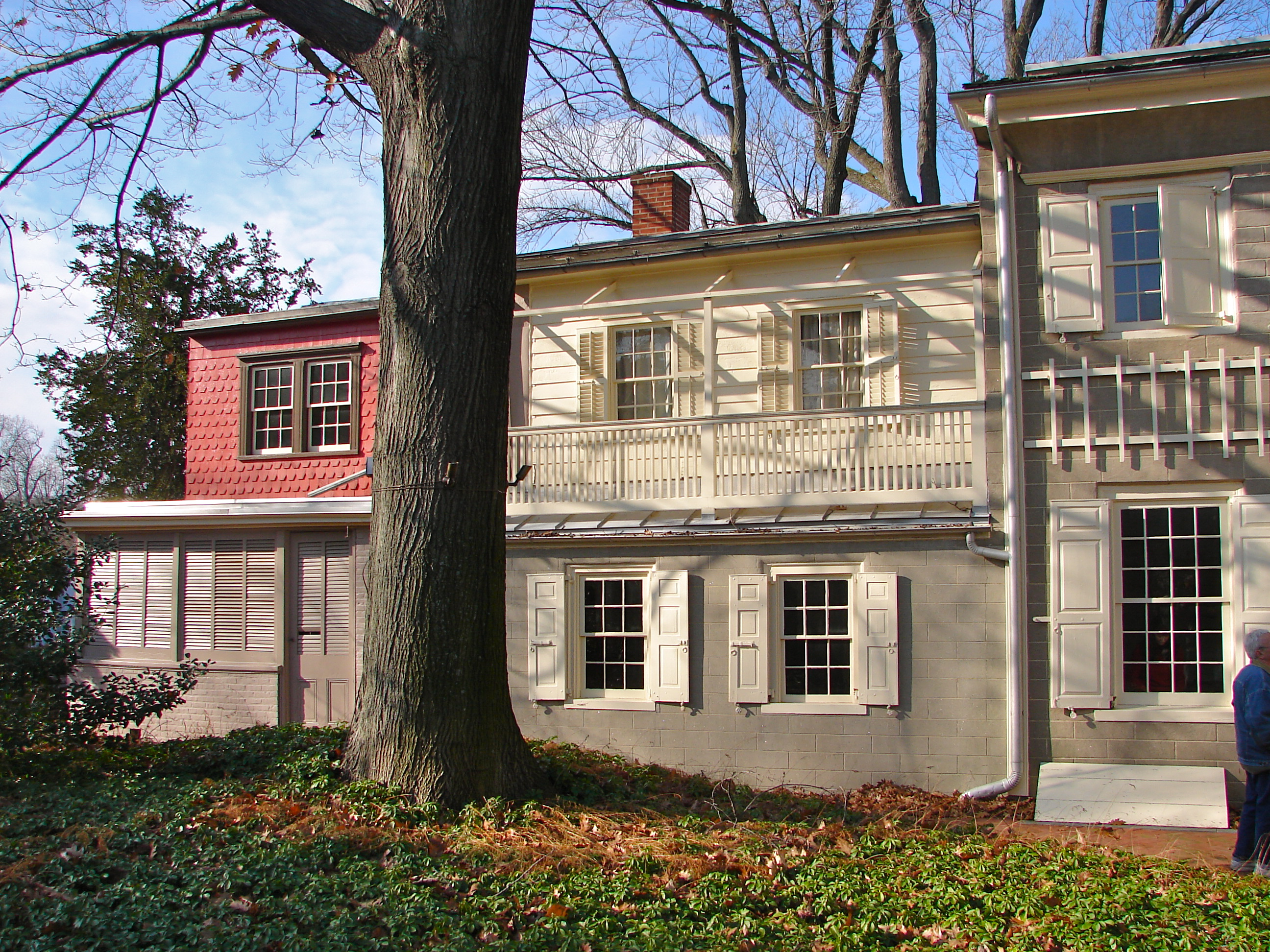 Rear of the Germantown White House, aka the Deshler-Morris House, on Germantown Ave. in Philadelphia, PA. Building served as residence of President Washington for several months in 1793 and 1794. On NRHP and part of Colonial Germantown Historic District (NHL). The rear of the house pictured here was built in the 1750s, the rest in the 1770s.